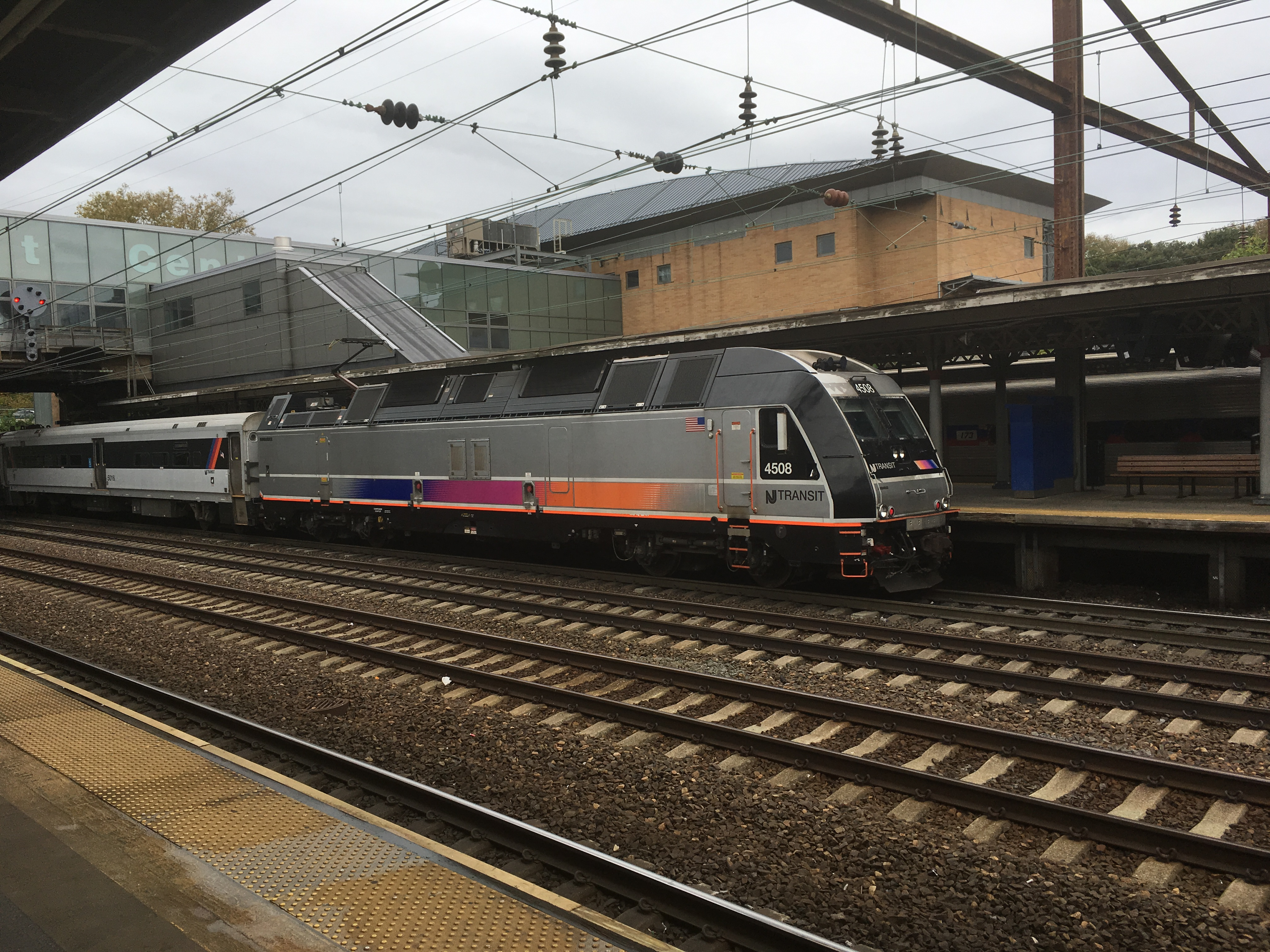 NJ Transit Bombardier ALP-45DP 4508 trails on an outbound Northeast Corridor Line train at its final stop at the Trenton Transit Center in Trenton, New Jersey